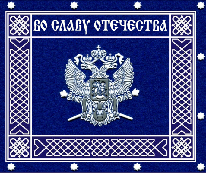 Flag of Registered Cossacks of the Russian Federation